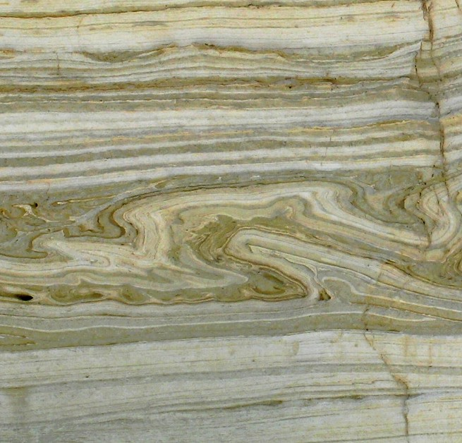 layers in lissan formation, Israel